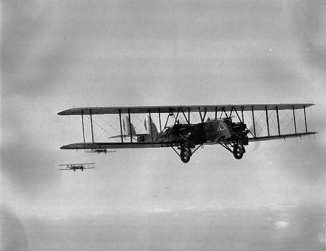 NBS-1 of the 2d Bomb Group, April 1926 Original caption: NBS-1 of the 96th Bombardment Squadron in April 1926 (USAF via NARA)